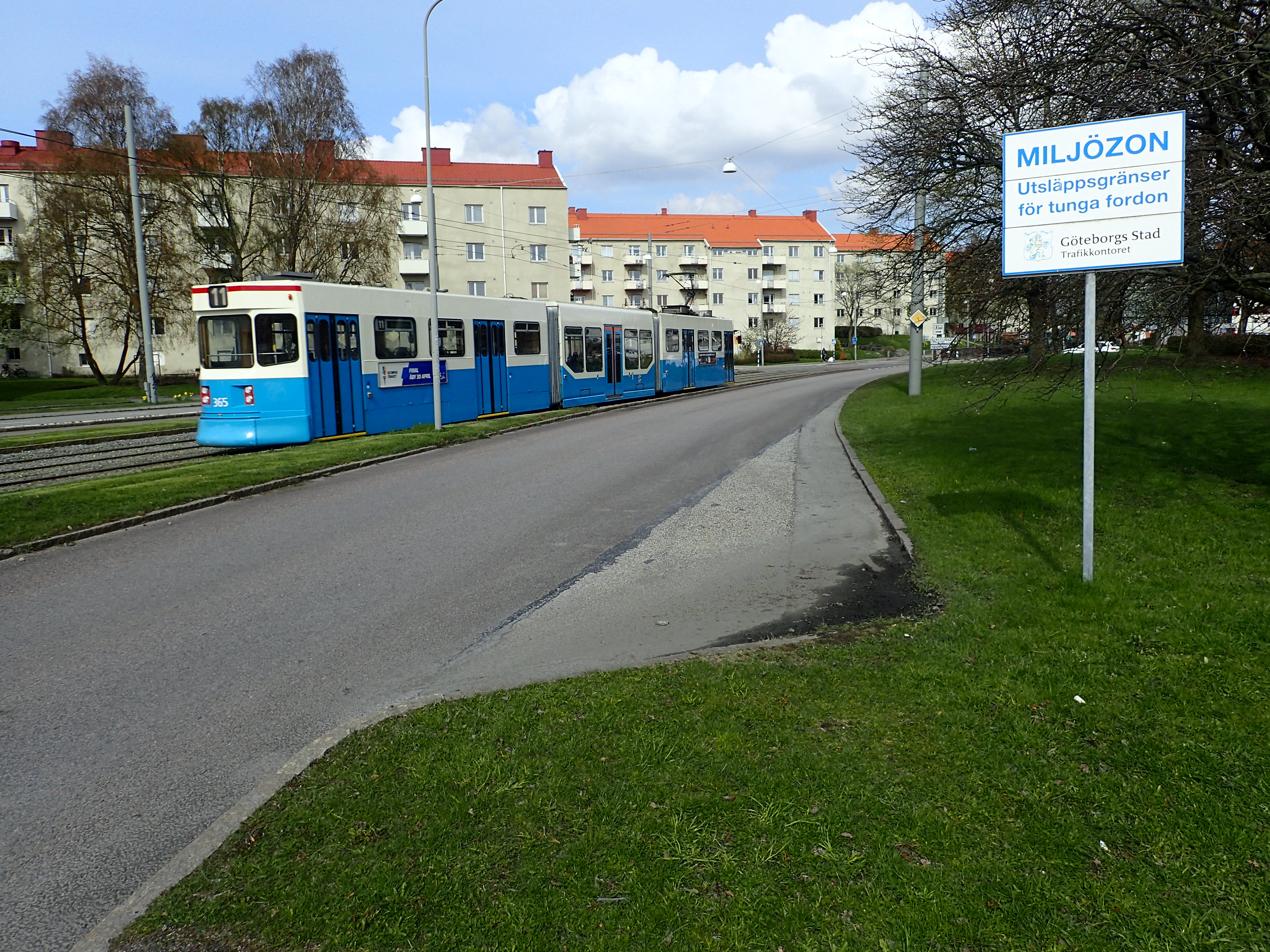 Tram 11 passing through the neighbourhood Sandarna, in Gothenburg. On the right side a sign that says it is an enviromental zone(miljözon).